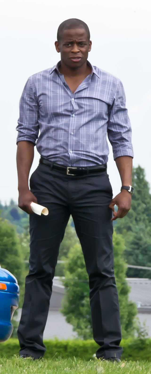 Dulé Hill at the set of Psych, season 6.